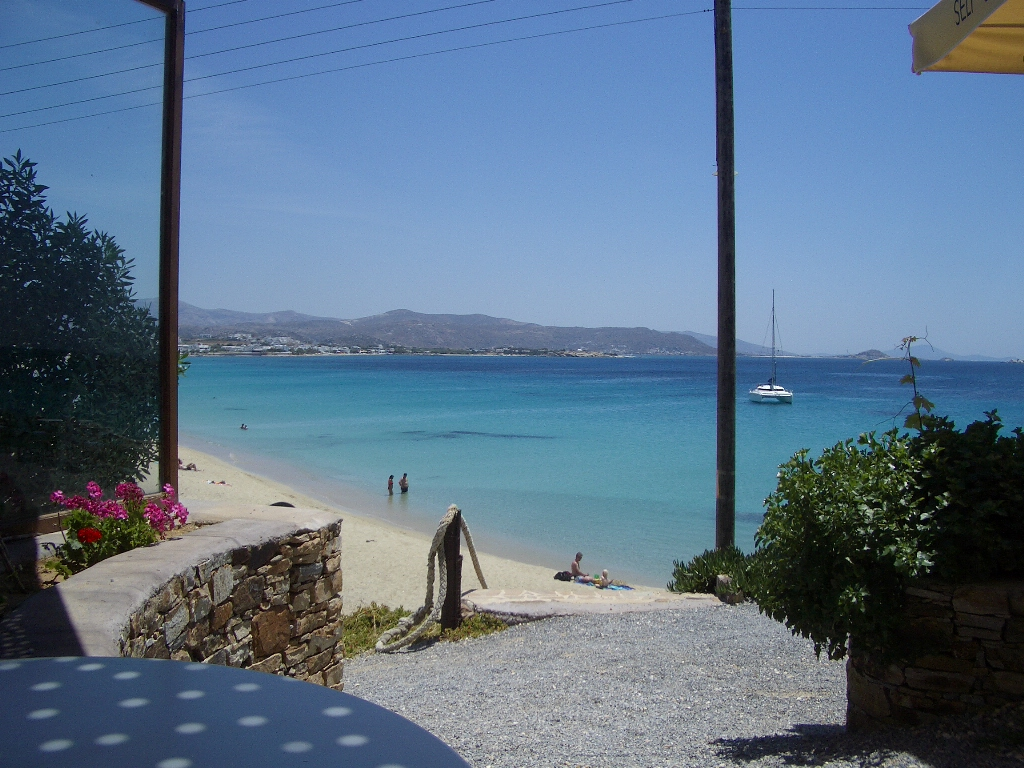 Agios Georgios beach on Naxos island